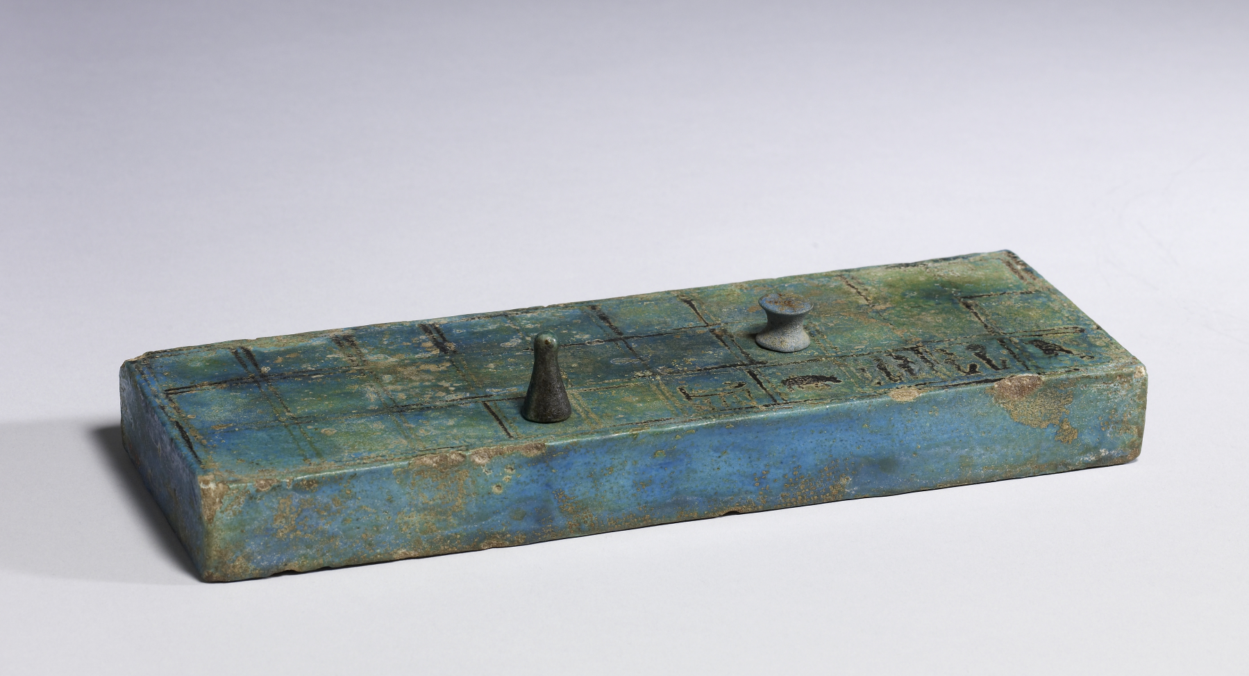 Egyptians enjoyed playing board games, especially senet, or "passing." During the 18th dynasty, the game acquired religious significance, which transformed it into a simulation of the soul's journey through the underworld to achieve immortality. Throw sticks, much like dice, determined a player's moves, and winning required both skill and luck. This senet game board of 30 squares required 14 game pieces, like these spool- and cone-shaped pieces.